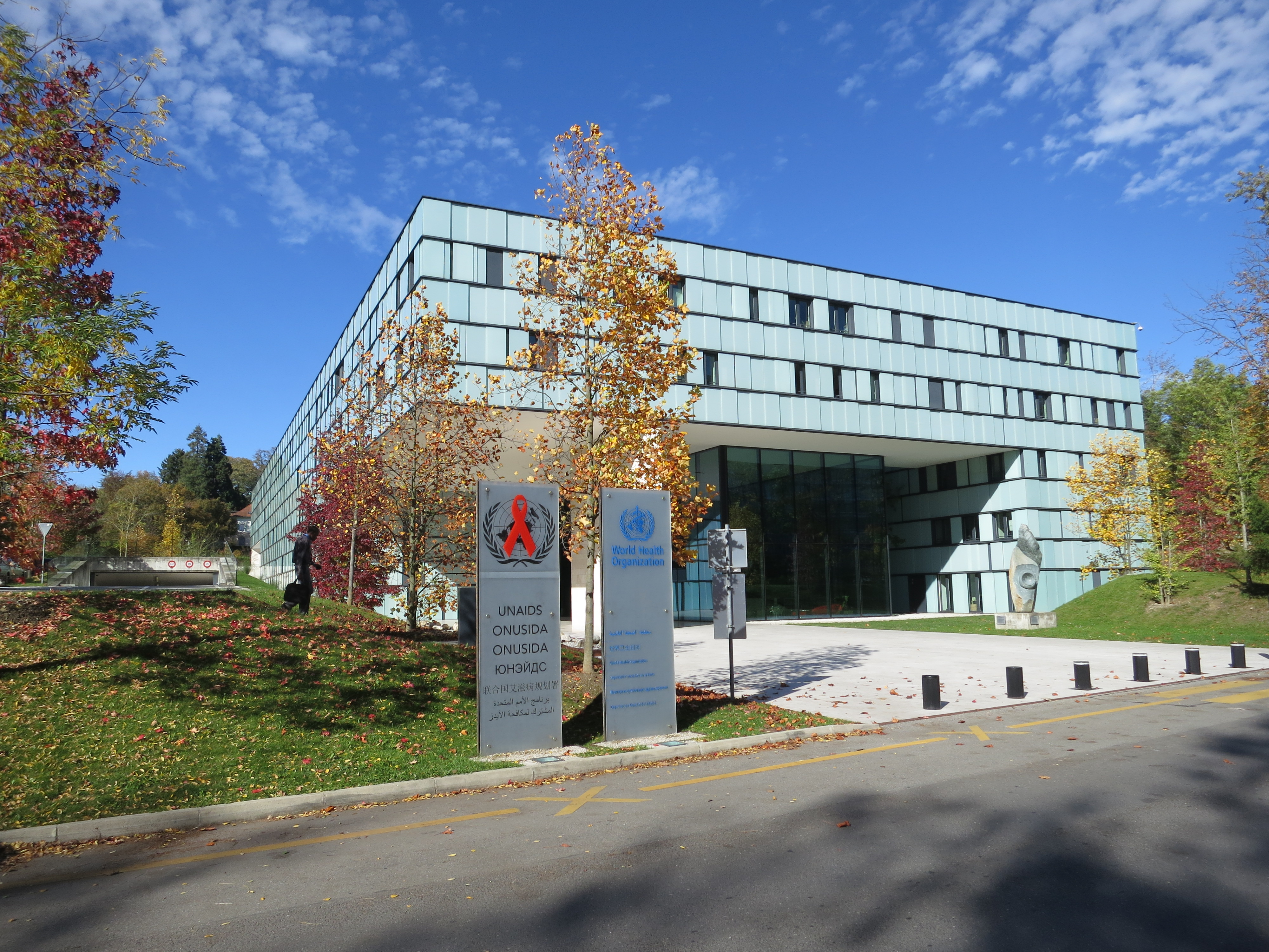 UNAIDS building, Geneva